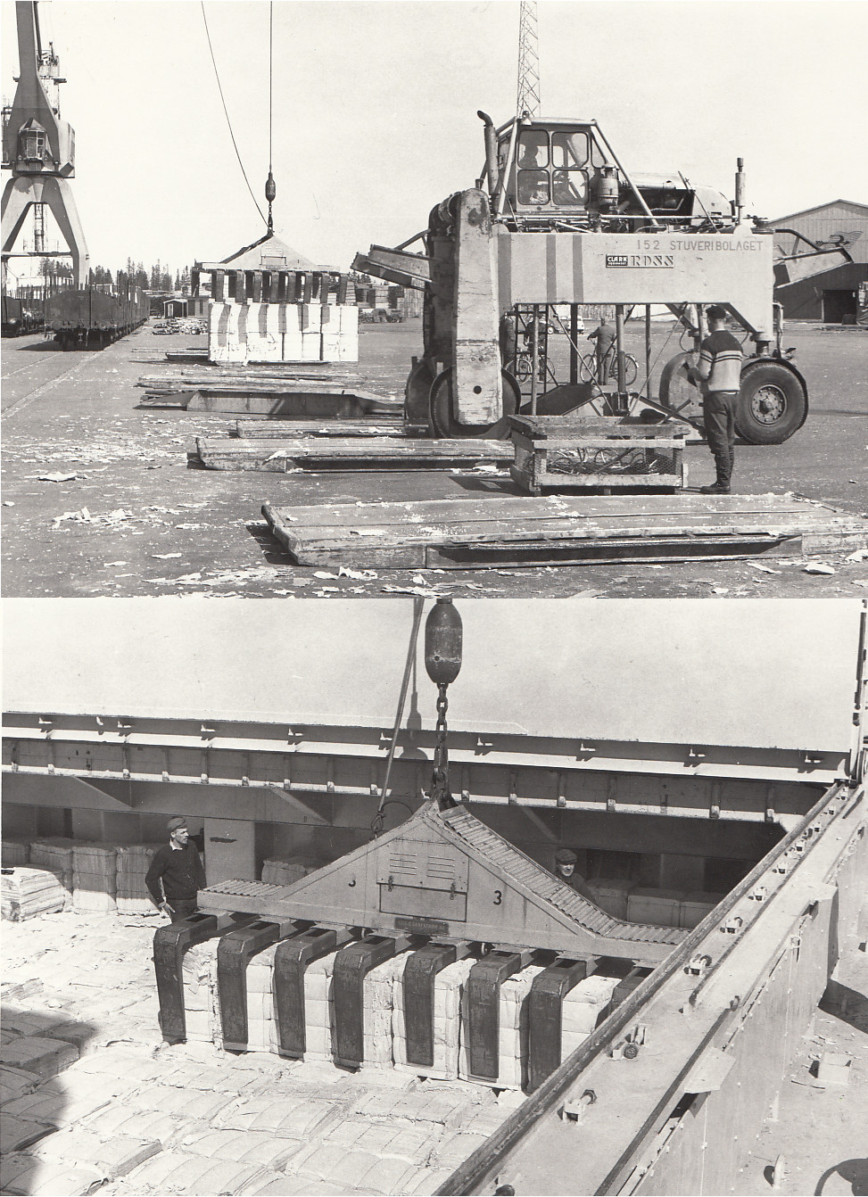 Loading of wet pulp on the ship Bowater